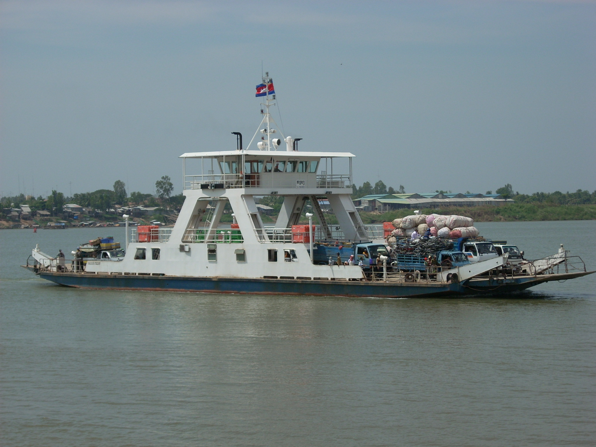 Across the Mekong River in Neak Leung.